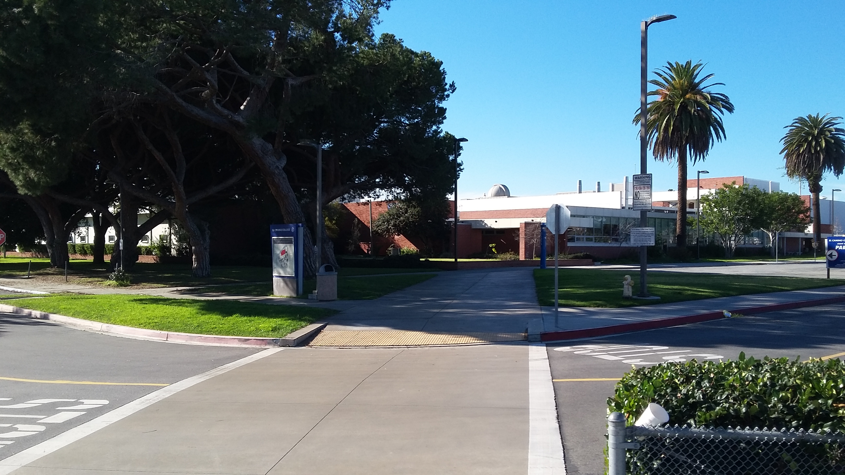 El Camino College from Crenshaw Blv./Manhattan Beach Blv.